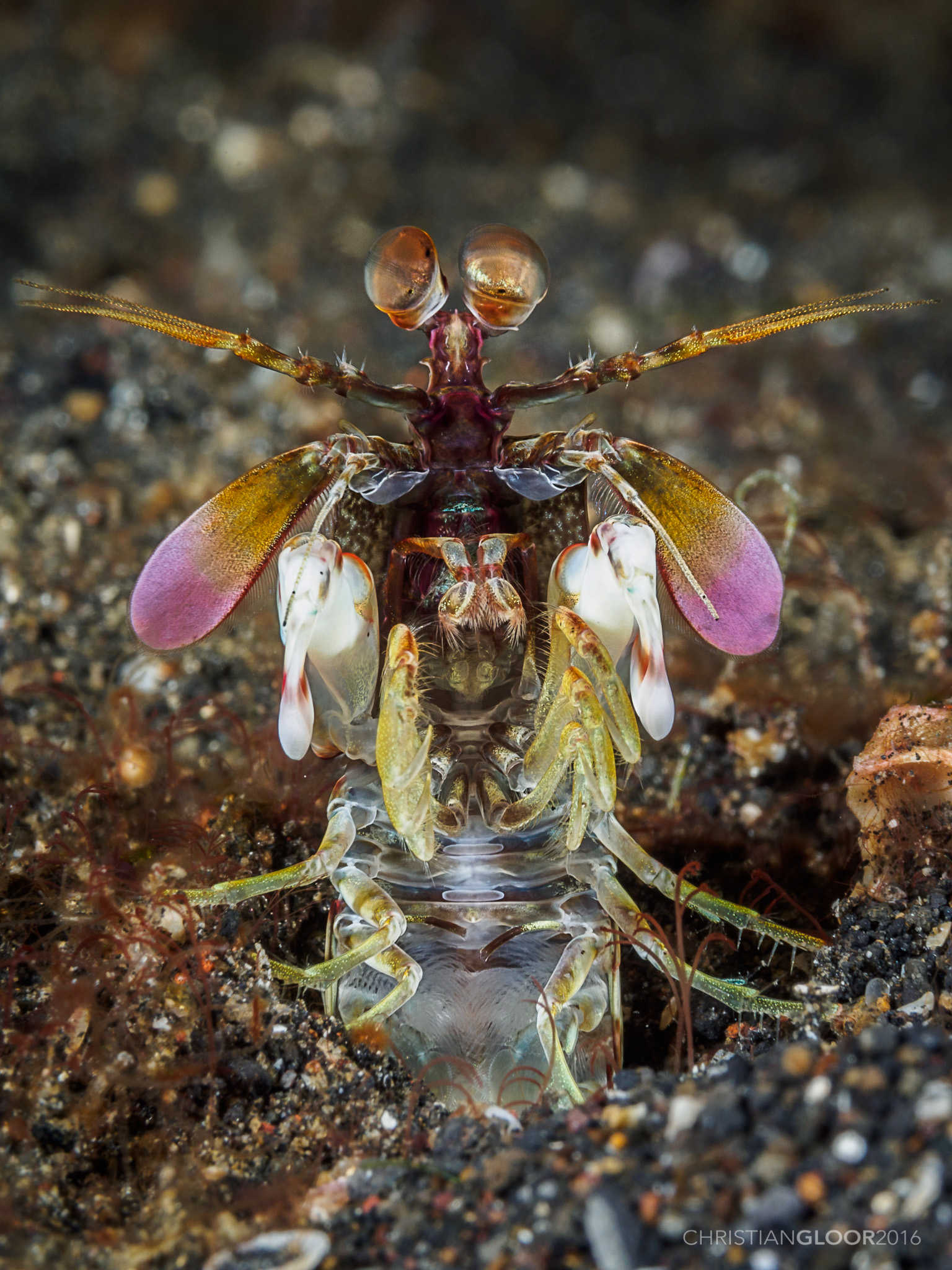 Smashing Mantis Shrimp / Odontodactylus latirostris